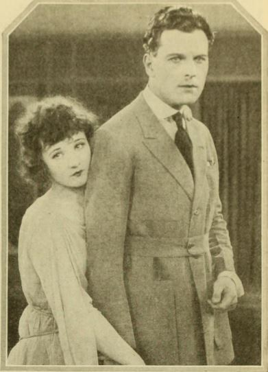 Still from the American film Prisoners of Love (1921) with Betty Compson and Emory Johnson, on page 53 of the April 1921 Photoplay magazine.